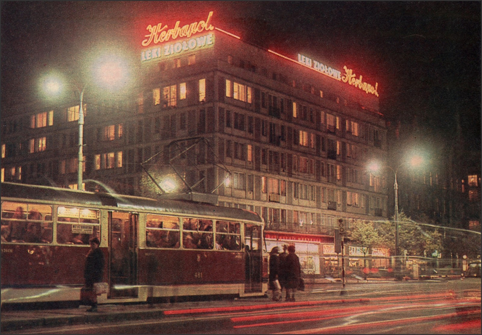 see also: [1]